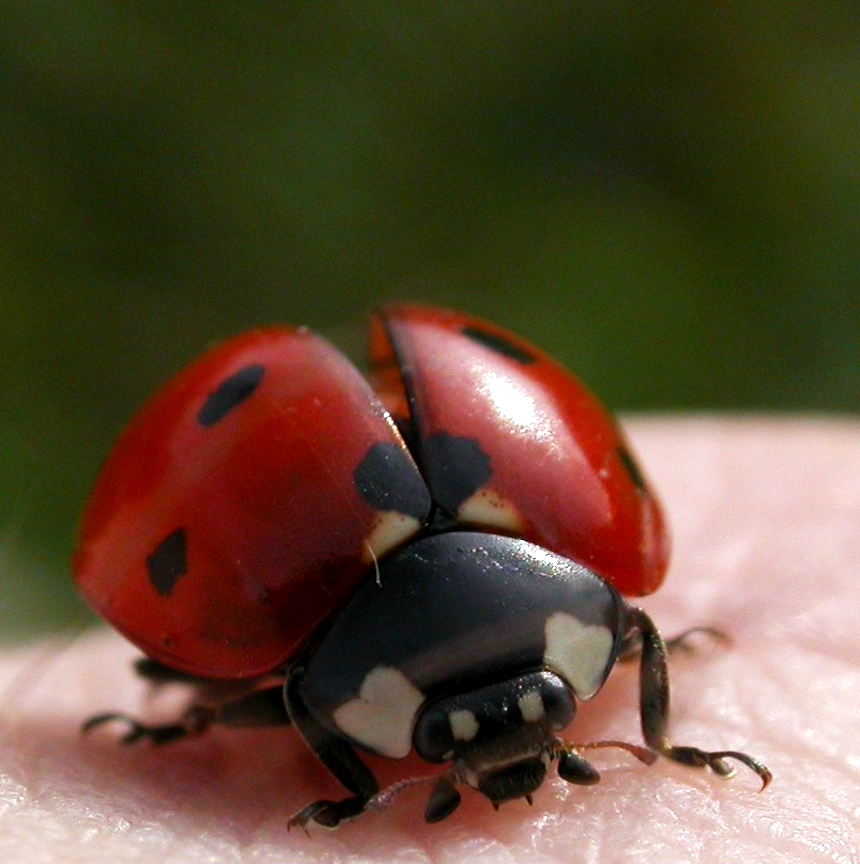 Unknown Coccinellidae